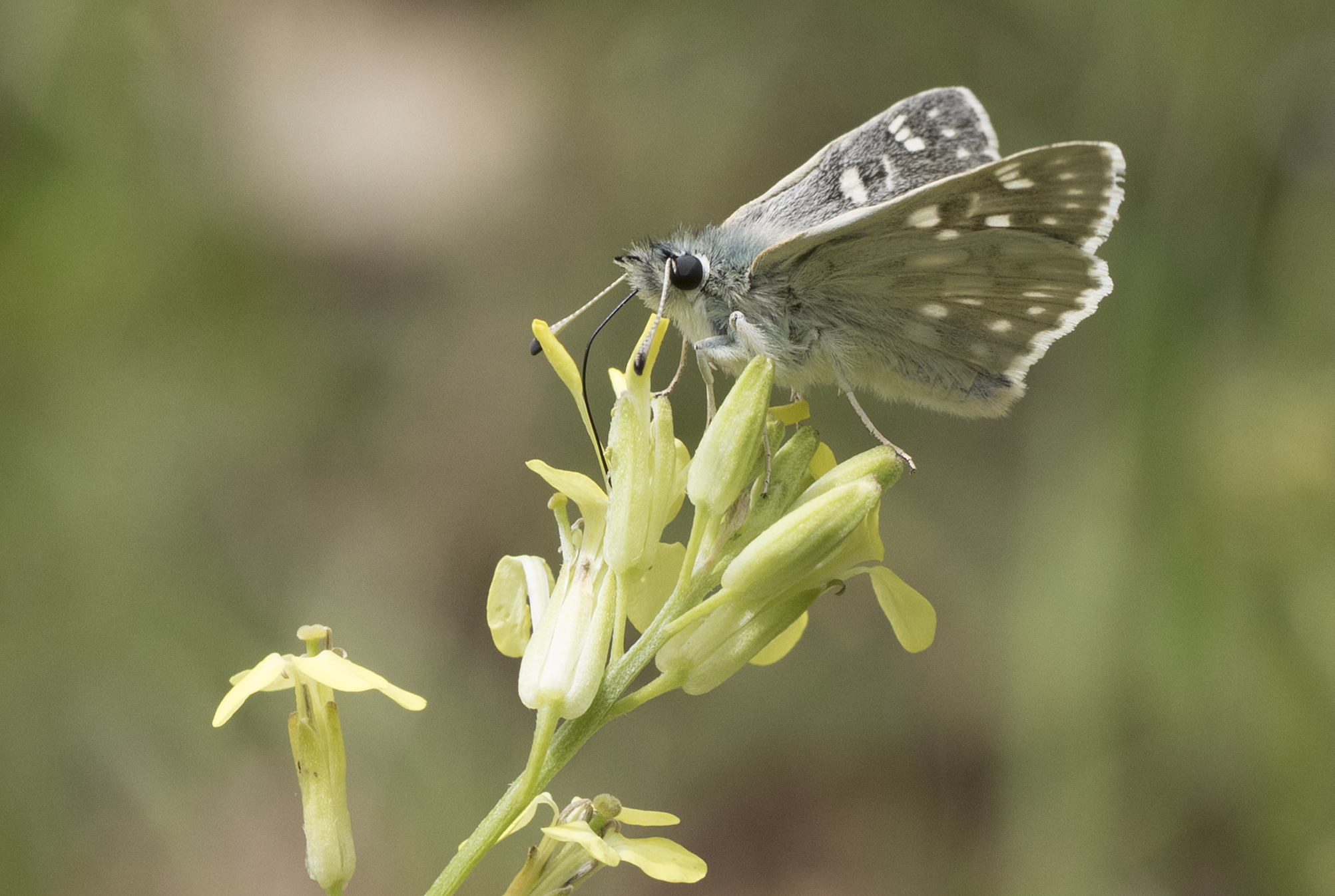 Wing underside view of a Tessellated Skipper (Muschampia tessellum). Cöbük Forest, Saimbeyli - Adana, Turkey.